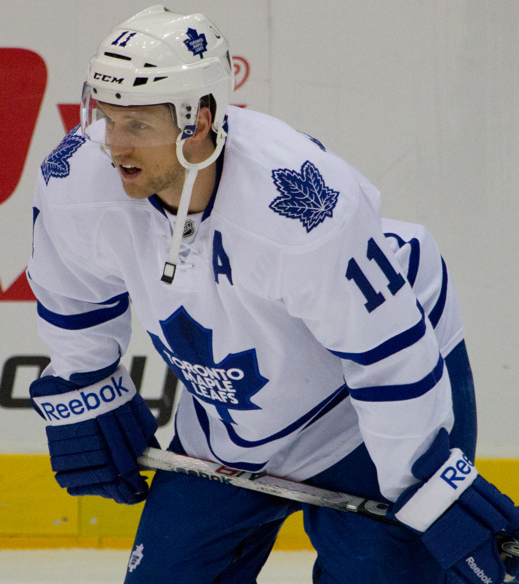 Jay McClement